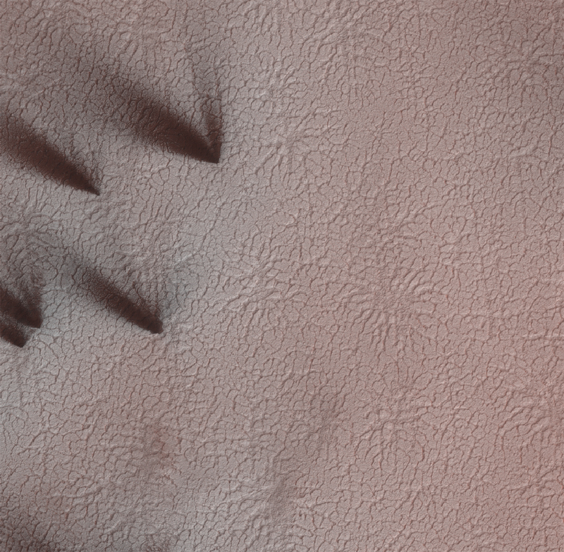 Dry ice etches terrain: sunlight heats up the surface below the seasonal carbon dioxide ice caps that cover the south pole of Mars where "dry ice" is translucent and thus causes ice to sublime (transition from solid directly into gas, bypassing the liquid phase) and carve channels in the surface. Vapor carries dark sand and dust from beneath the ice onto the surface through these carved channels which can take on different forms. On relatively flat surfaces, such as on this photograph, the evaporating gas etches wide and shallow channels; in more hummocky terrain the streaks of blasted dust resemble cobwebs.